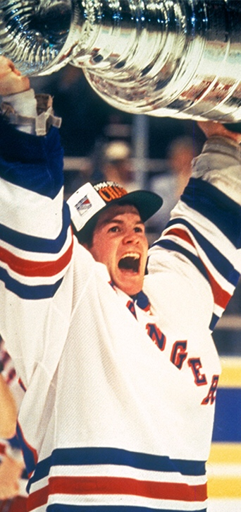 Whether you play outside or at the rink, climate change is going to impact your sport. What are you doing to green your game?